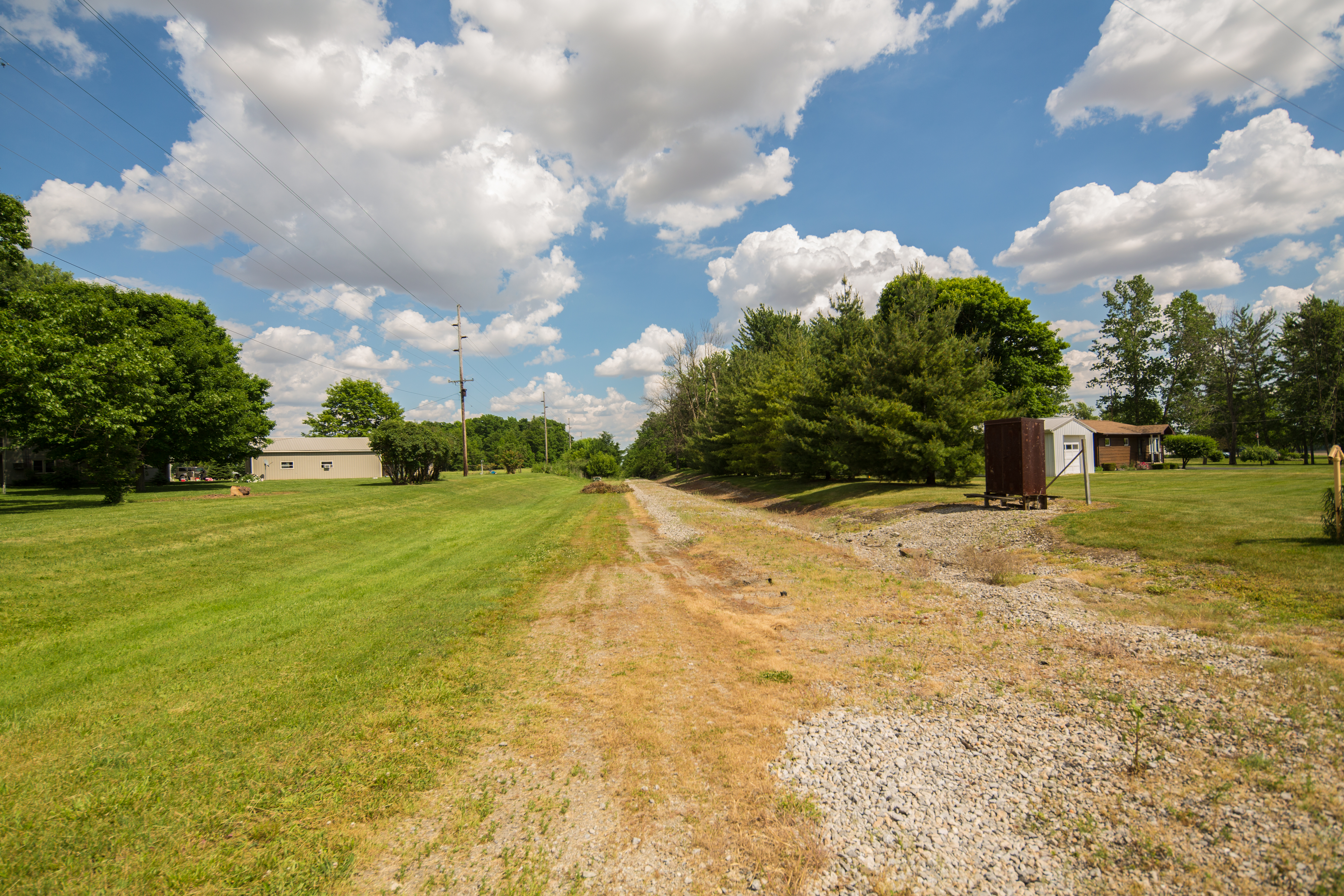 Photo from Small Town Indiana photo survey.